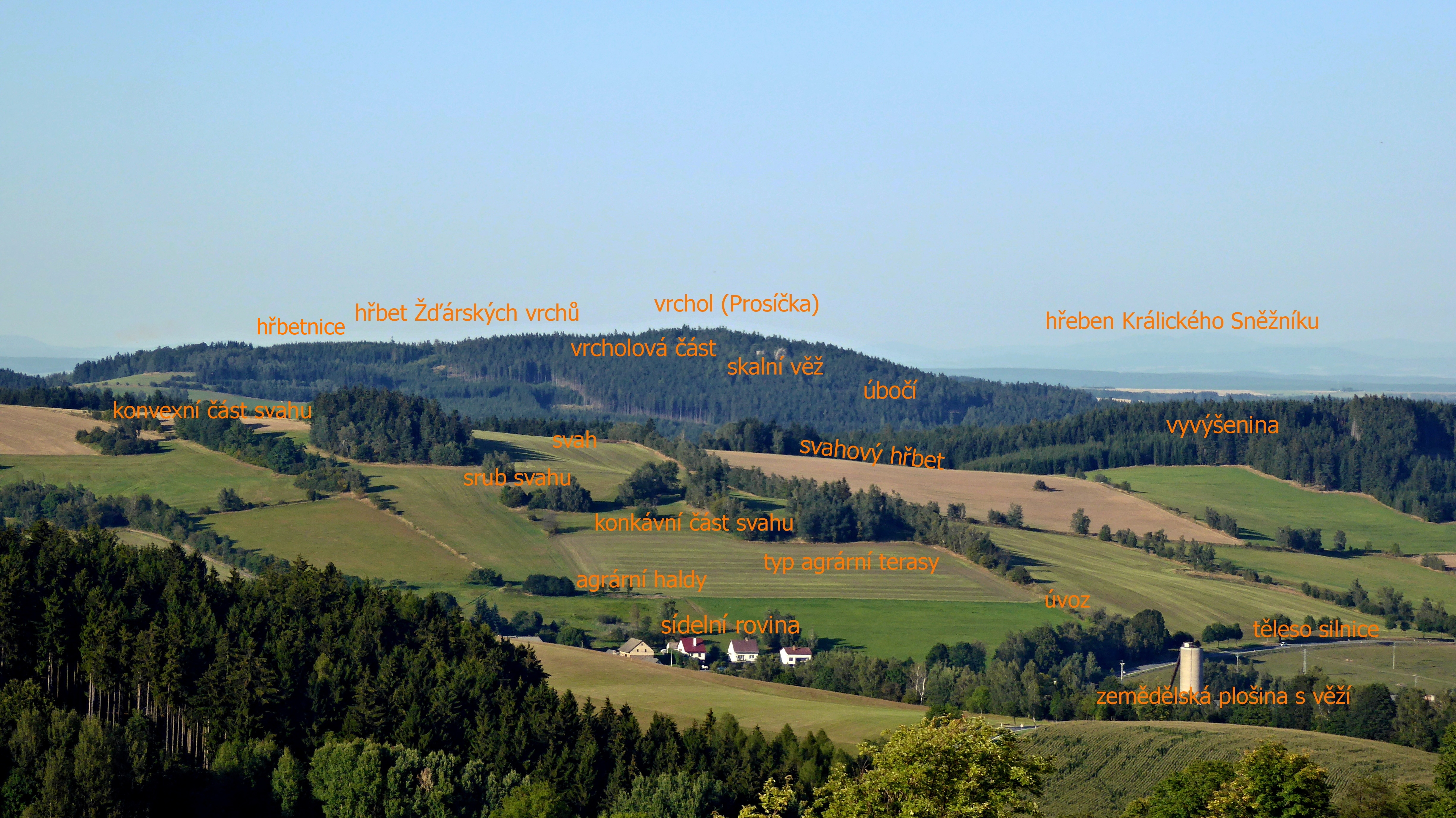 Descriptions in Czech in the photo are examples of shapes in georelief of "Pohledeckoskalské" Highlands. The rocks modeling surface forms of the earth's crust, is part of the litosphere of the Earth. Subtotal processes create a certain soil type that reflects the type of landscape in which it originates. View from the slope of the "Kamenice" hill (780 m above sea level) in the northeast direction to the peak of "Prosíčka" (739 m above sea level), in the middle photo. Photo-location: Czechia, "Vysočina" Region, village "Roženecké Paseky", part of municipality "Věcov".